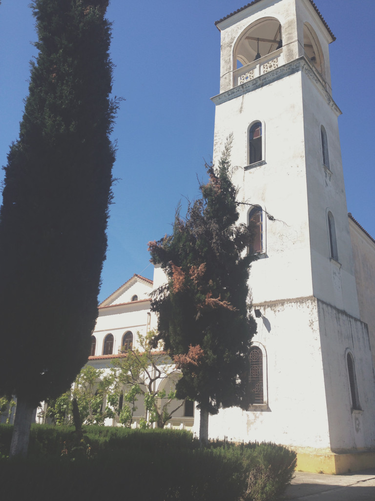 Kisha e Shën Kollit Kavajë